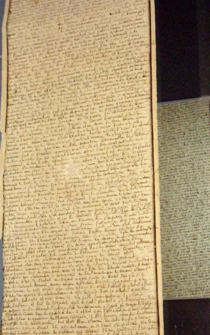 Detail of The 120 Days of Sodom, or the School of Libertinism